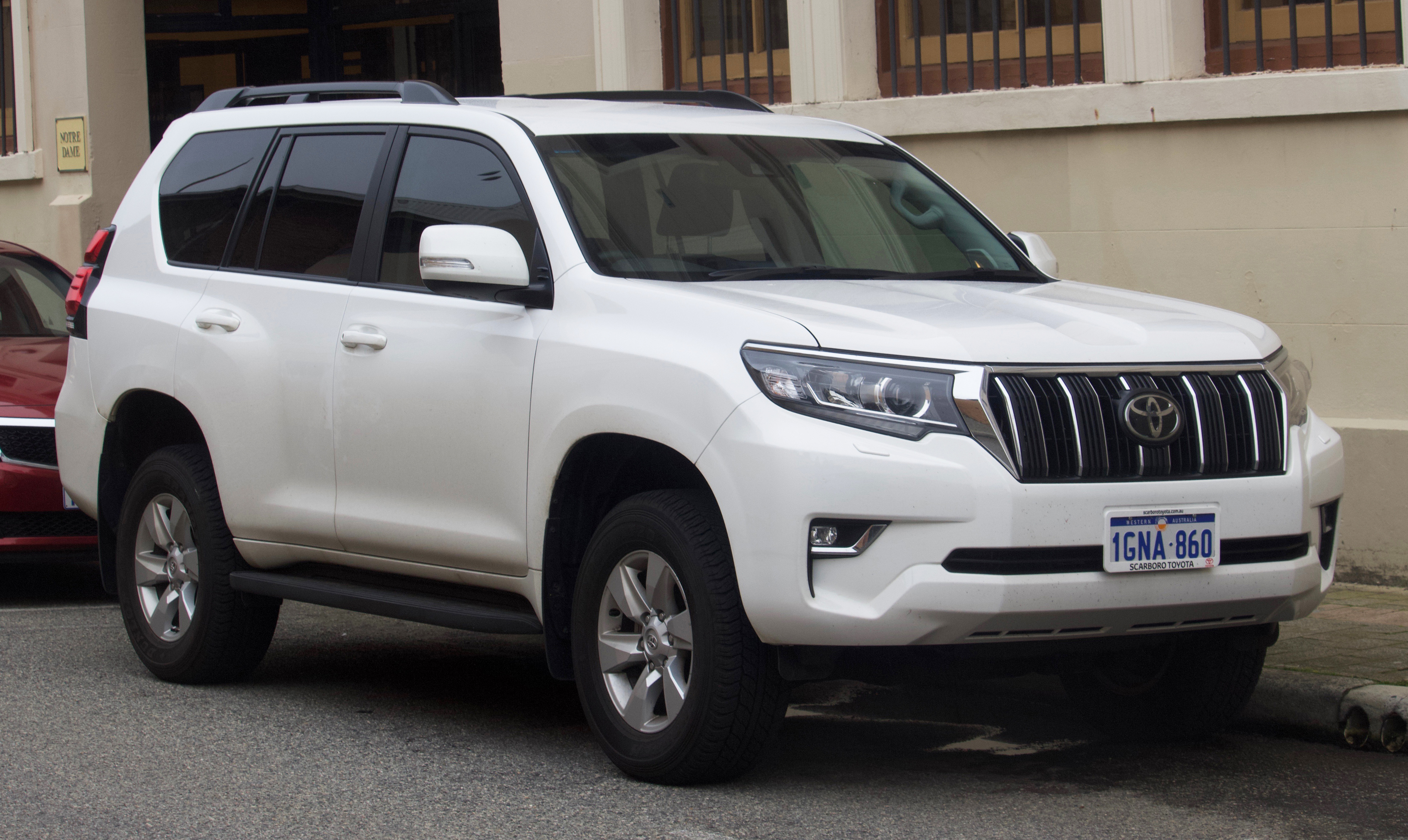 2018 Toyota Land Cruiser Prado (GDJ150R) GXL wagon. Photographed in Fremantle, Western Australia, Australia.